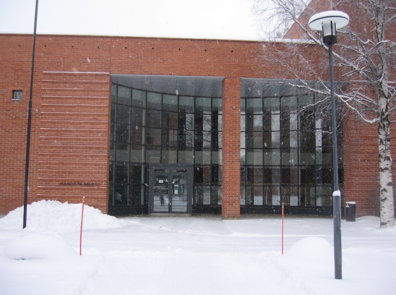 The Provincial Archives of Joensuu